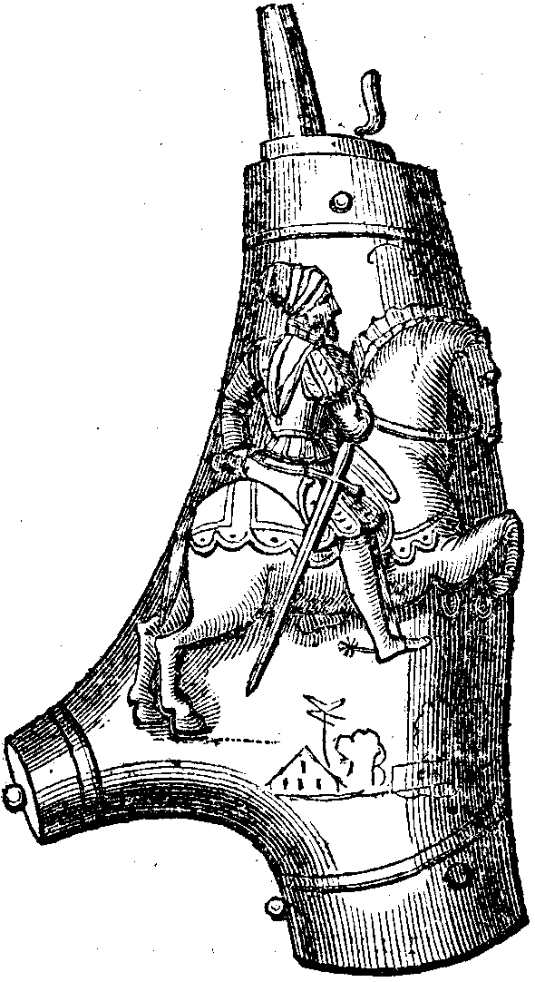 An antique container for gunpowder.